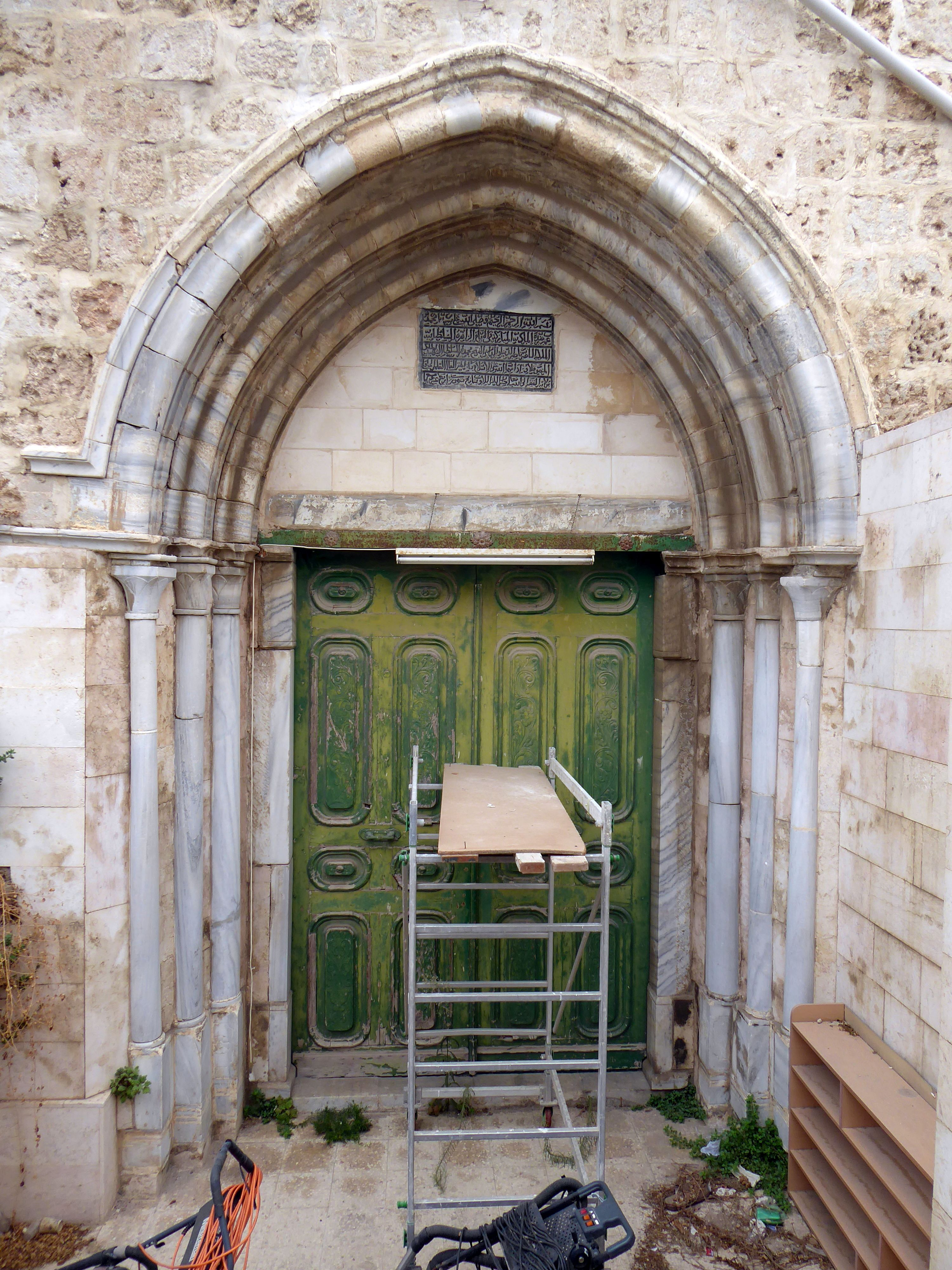 Great mosque of Ramla (St John's Church)